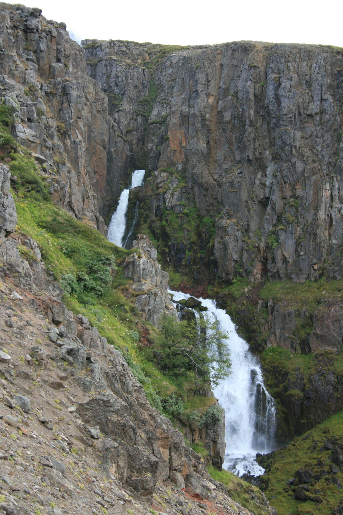 Goðafoss in Svarfaðardalur, N-Iceland